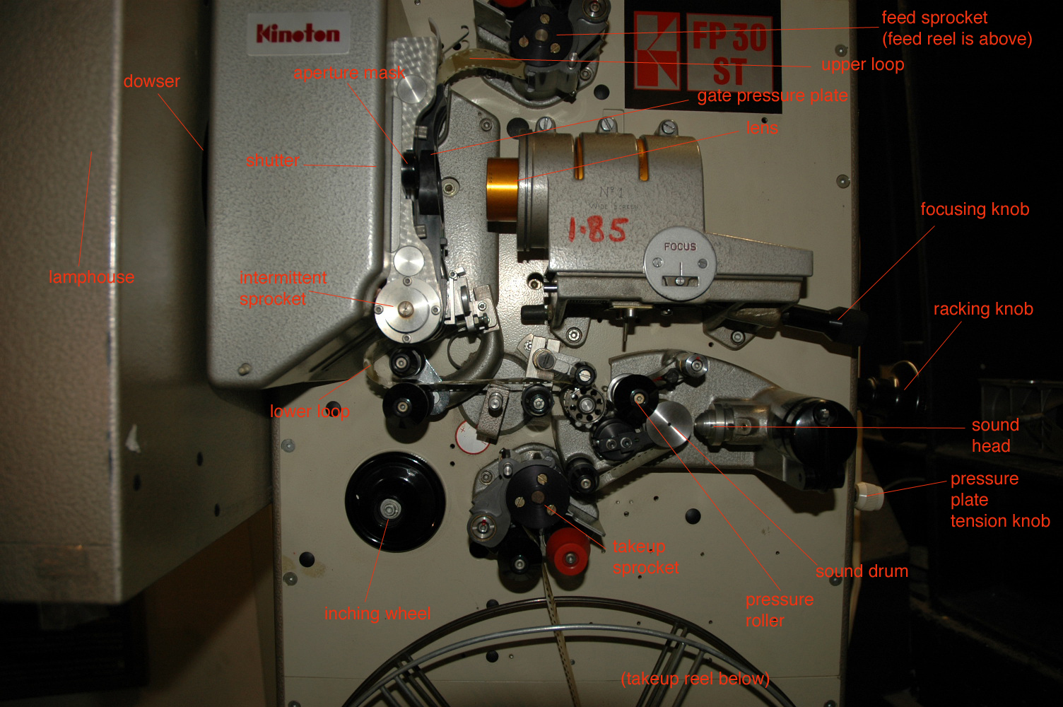 Movie projector mechanisms with parts identified. Photo taken 2005-06-20; text and lines added 2006-02-25.